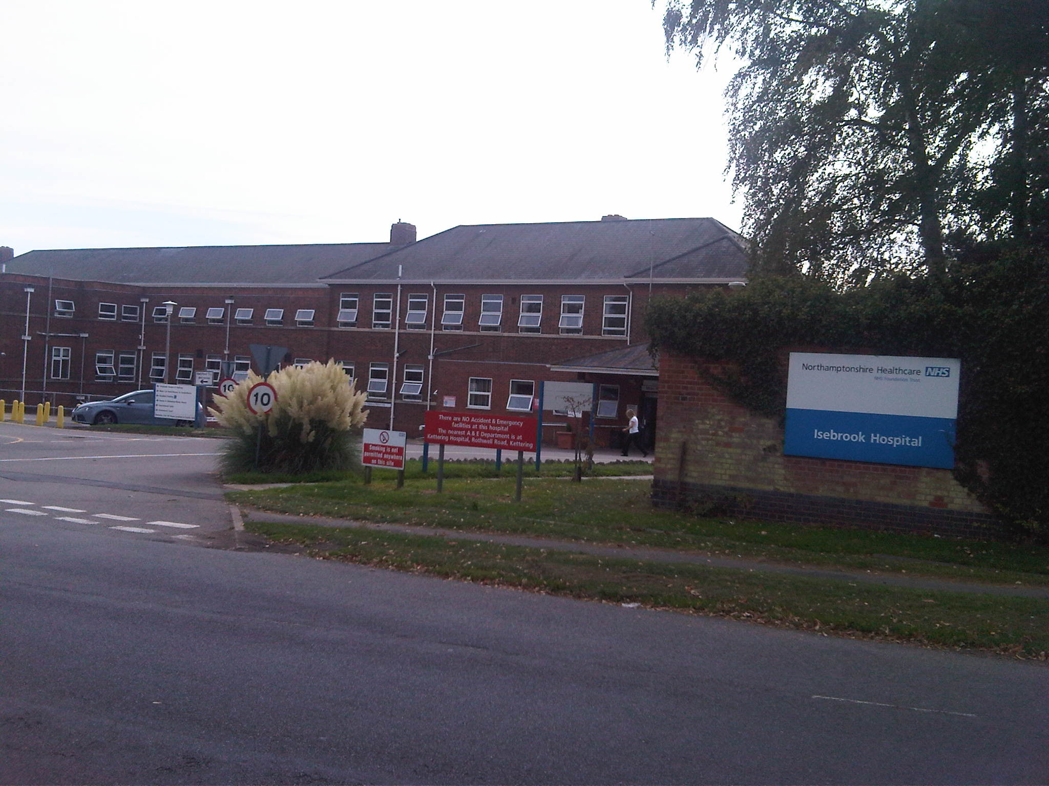 A photograph of Isebrook Hospital in Wellingborough.